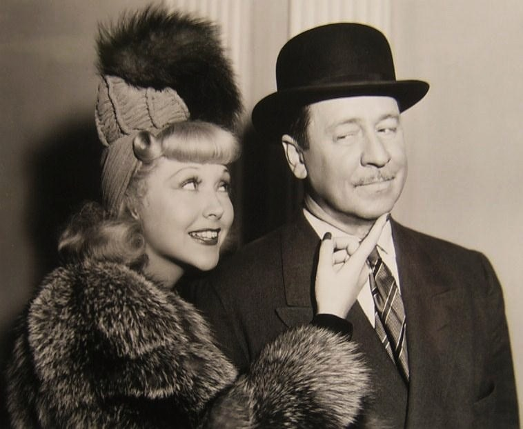 Joyce Compton & Robert Benchley in Bedtime Story - publicity still (cropped : see source)